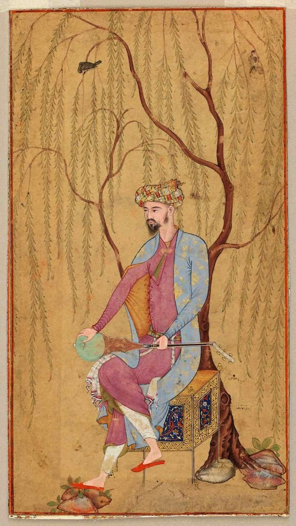 Aqa Riza. An Elegant Man Seated under a Willow Tree 1600–05, Boston, MFA